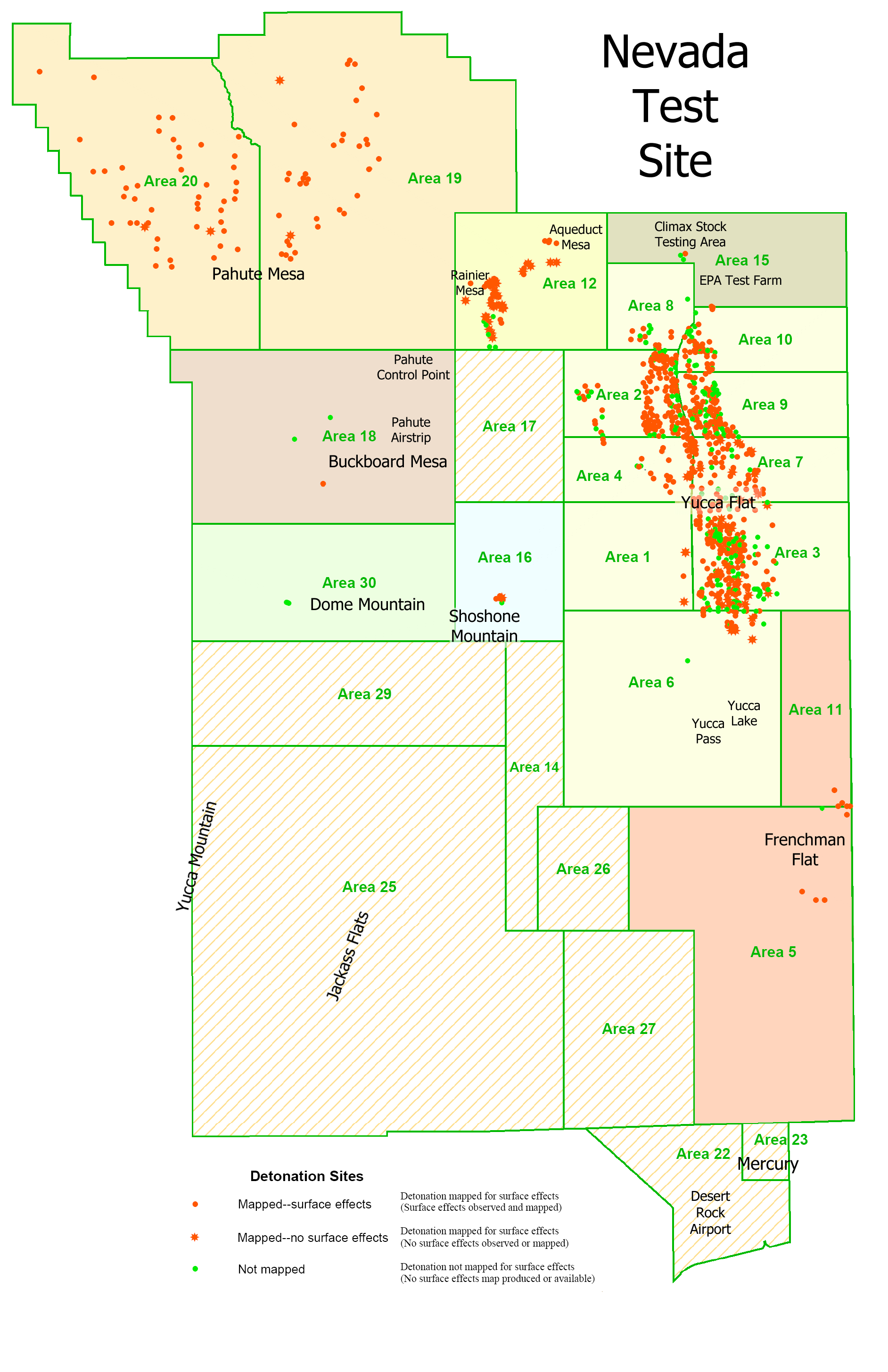 This is a derivative work. It is my retooling of a USGS map called "Geologic Surface Effects of Underground Nuclear Testing, Buckboard Mesa, Climax Stock, Dome Mountain, Frenchman Flat, Rainier/Aqueduct Mesa, and Shoshone Mountain, Nevada Test Site, Nevada."